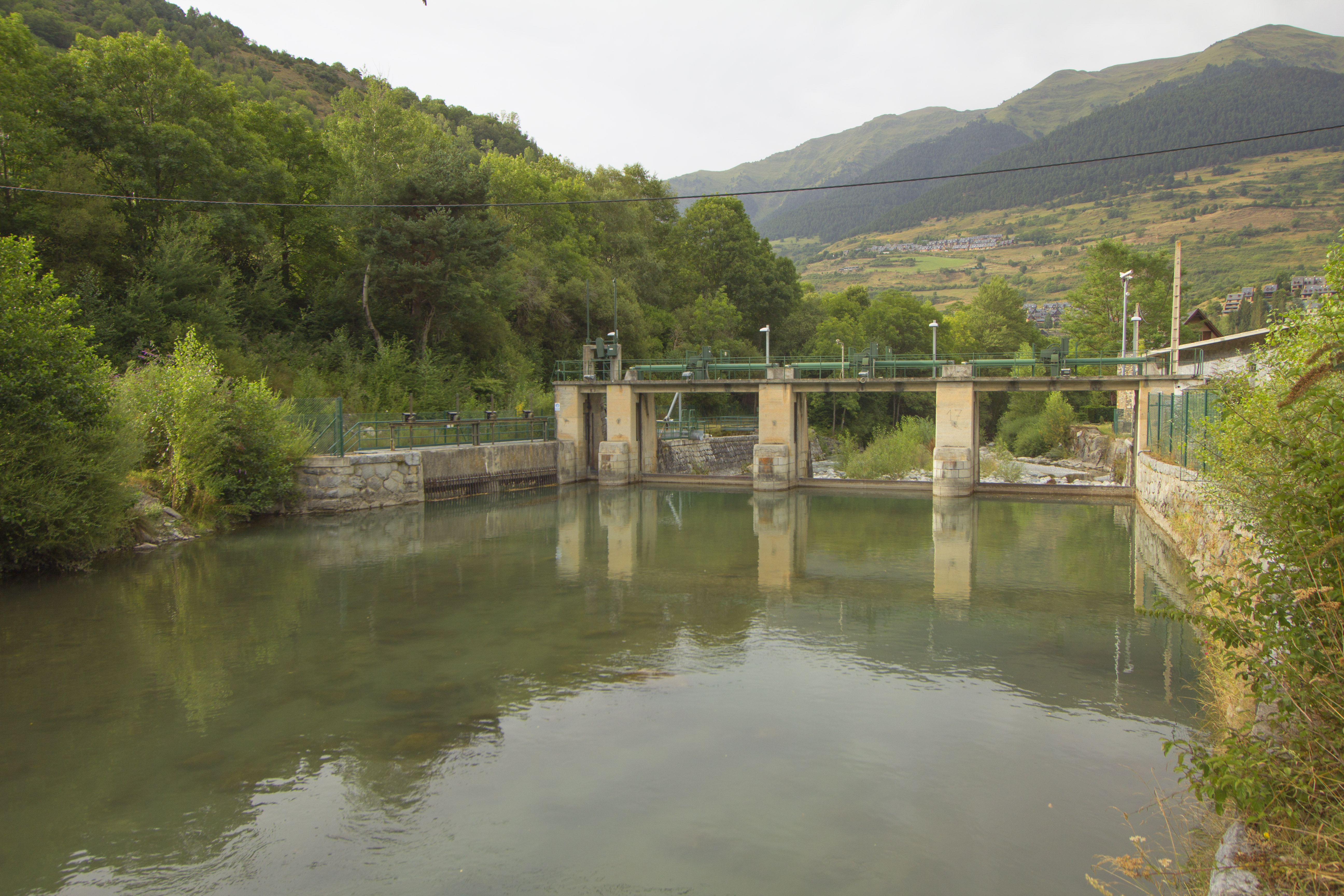 Garona dam of Benós hydroelectric power plant (Catalan Pyrenees)